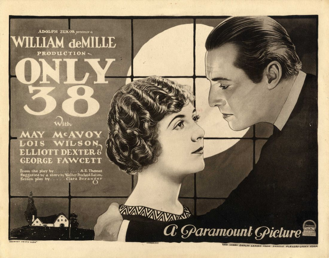 This is a lobby card for the American silent romantic-comedy film Only 38 (1923).